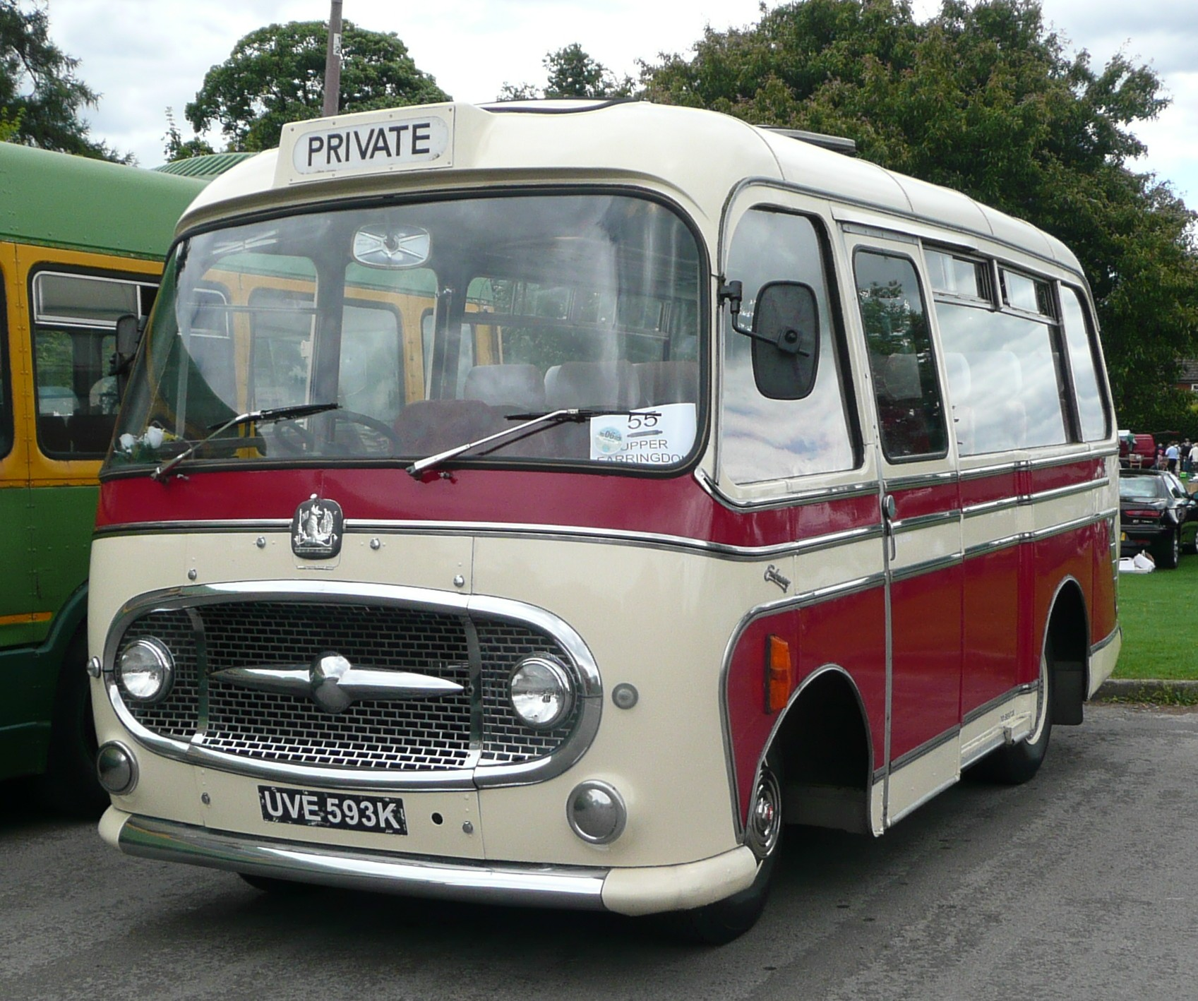 Preserved Blood Transfusion Service UVE 593K, a Bedford J2SZ2/Plaxton, at the 2008 Alton bus rally at Anstey Park.